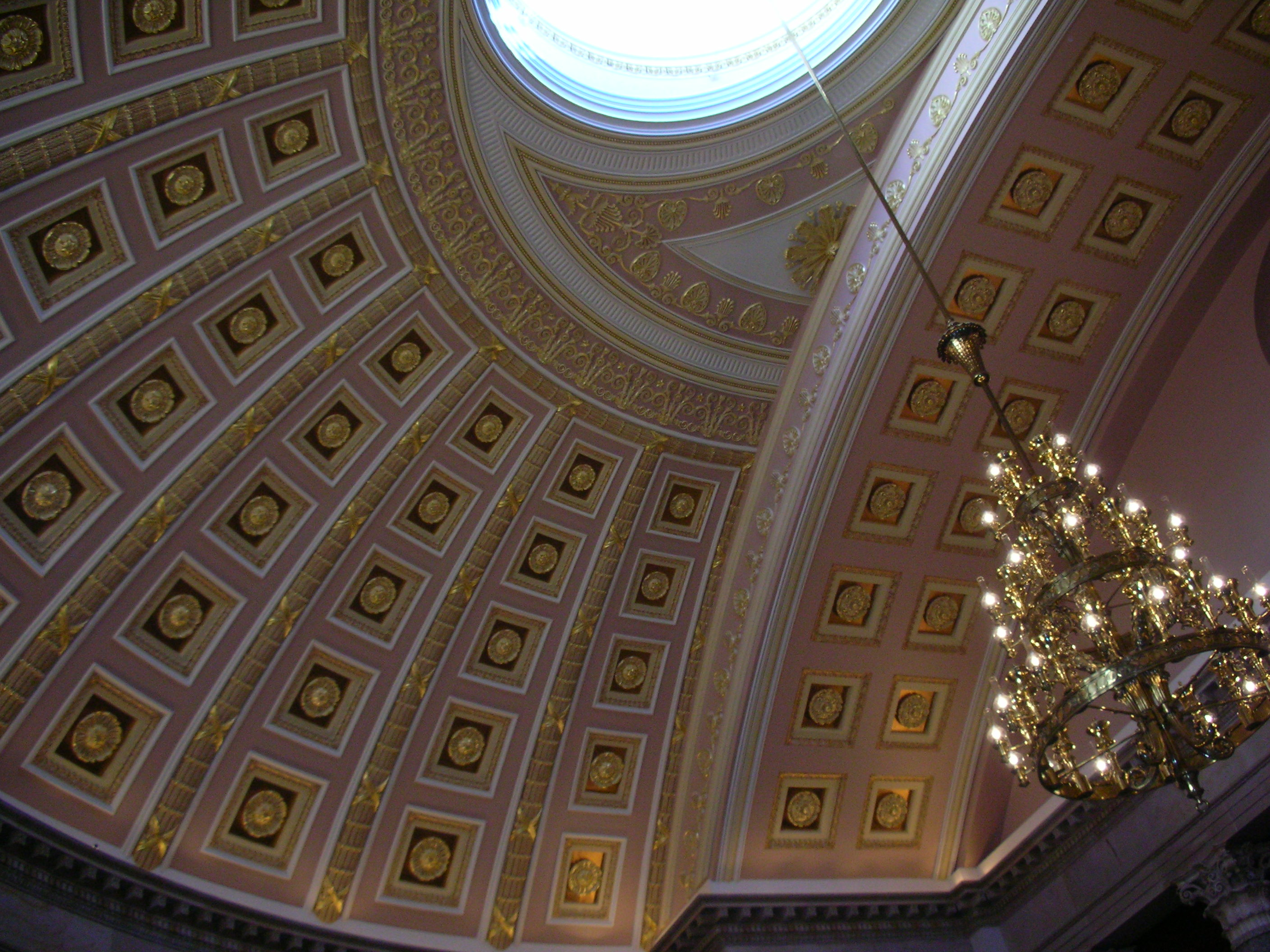 2006 photograph of National Statuary Hall, formerly the Hall of the House of Representatives. The vaulted ceiling, shown here, is the source of the Hall's notorious acoustic phenomenon.